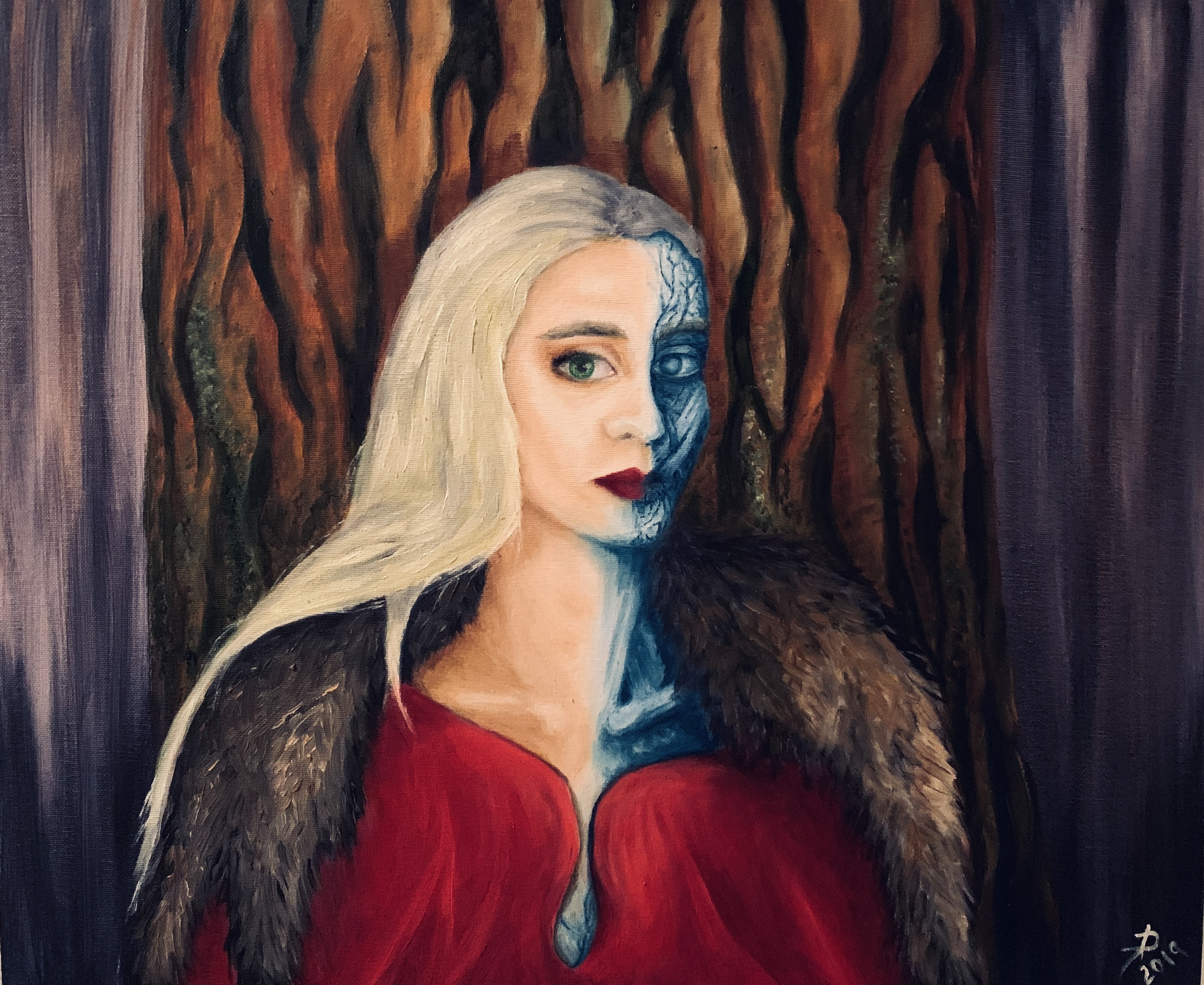 Image (painting) of Hel, daughter of Loki, from Norse Mythology, like described in Edda